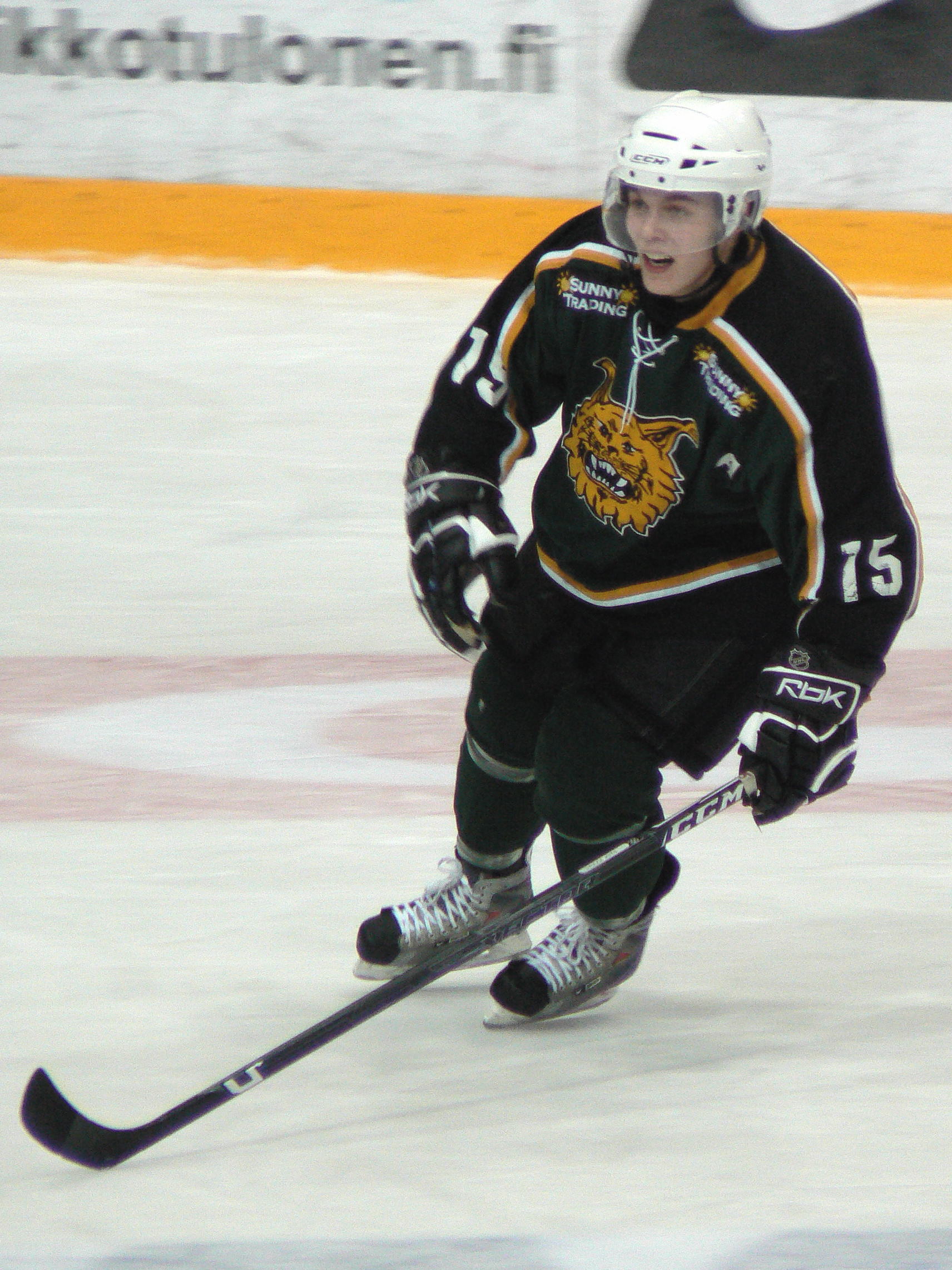 Finnish ice hockey forward Joonas Rask playing for Ilves Tampere junior A team in October 2008.